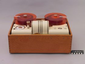 Tolnai LP20 Tape Recorder. Long Playing tape recorder with 20 tracks, constructed by the Hungarian-Swedish Diploma Engineer Gábor Kornél Tolnai (1902-1982), Stockholm, in the 1950s. Since 1986 the tape recorder is in "Tekniska museet" in Stockholm.